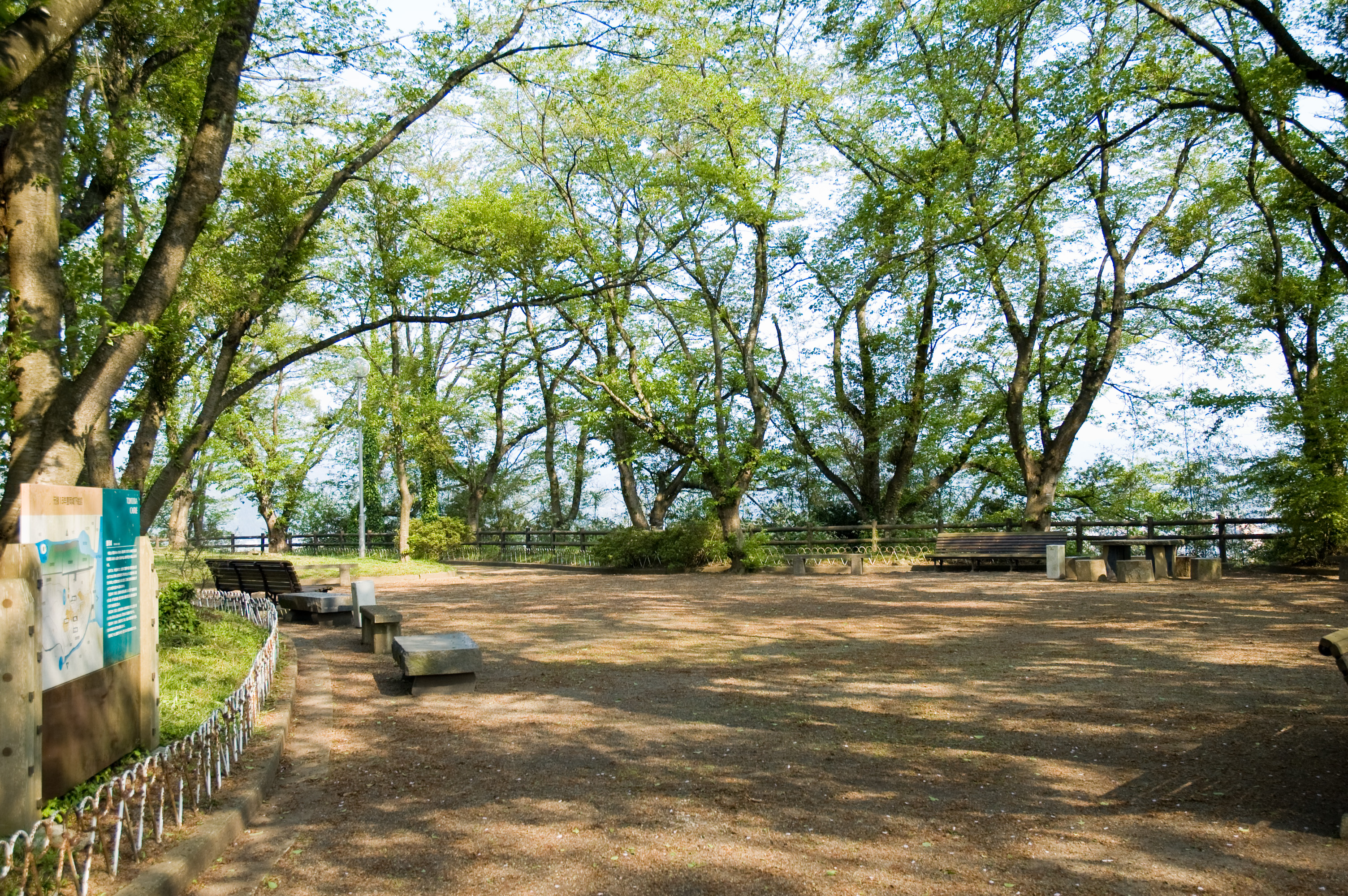 Honmaru of Jinmusan Park, in Toyooka, Hyogo Prefecture, Japan.